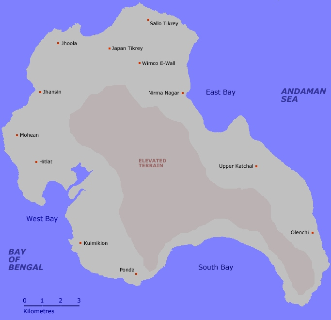 A map of Katchal Island, Nicobar Islands, India.